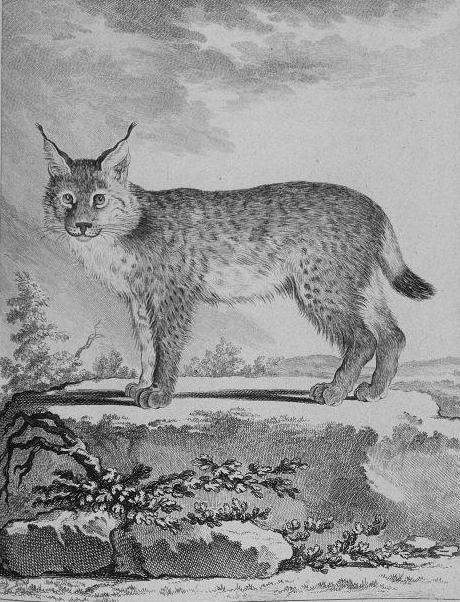 Lynx from Histoire naturelle générale et particulière avec la description du cabinet du roy, Volume 9